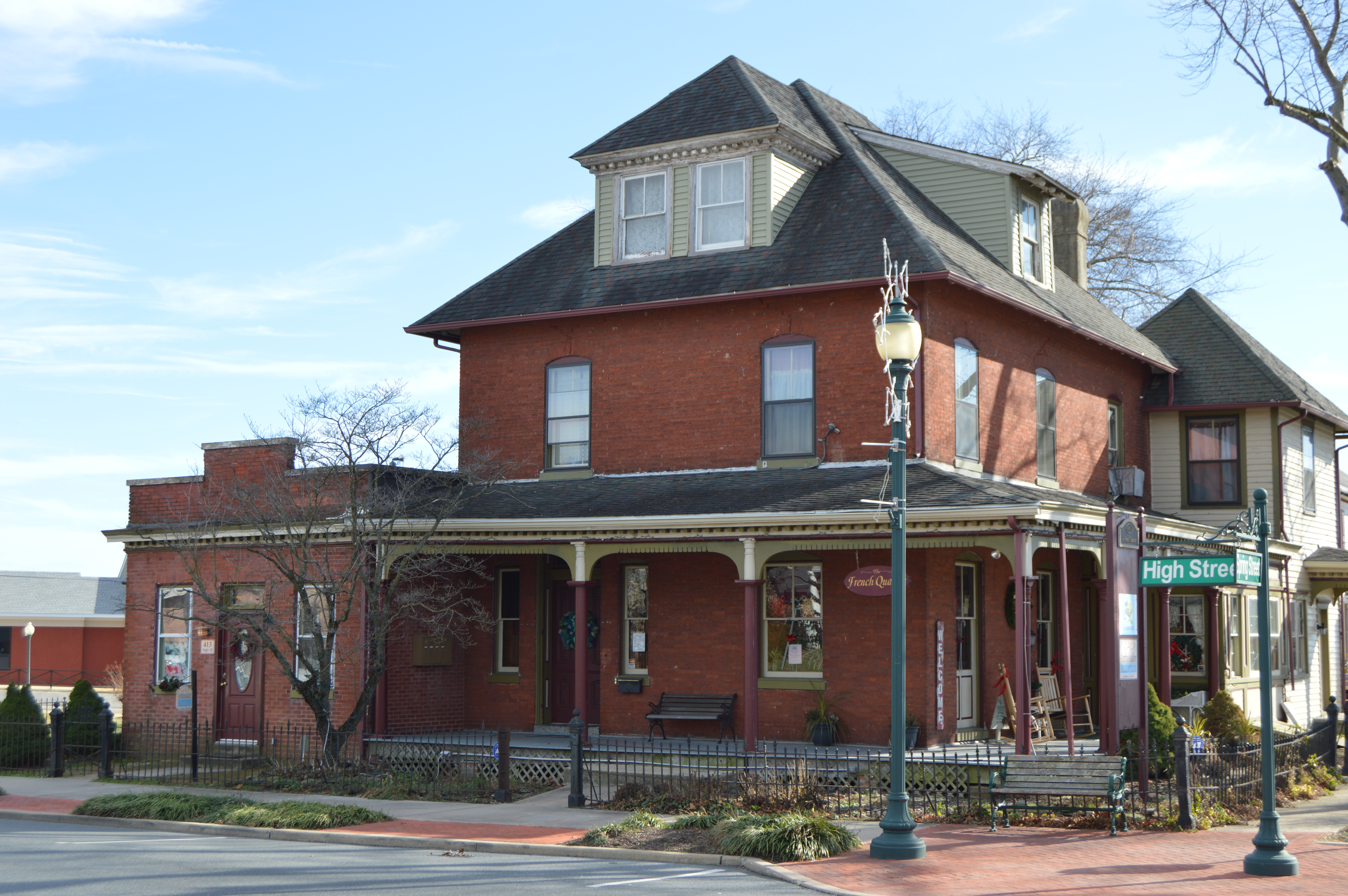 Front and western side of the Edgar and Rachel Ross House, located at 413 High Street in Seaford, Delaware, United States. Built in 1897, it is listed on the National Register of Historic Places.